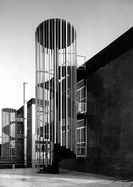 Detail of Italfarmaco building exterior, showing 'le scale Gentili,' the Gentili staircase. The influential Italian design magazine DOMUS, praised the Italfarmaco project for its daring use of space, singling out the exterior spiral staircase, for its "clarity and sharpness [and] structural elegance."